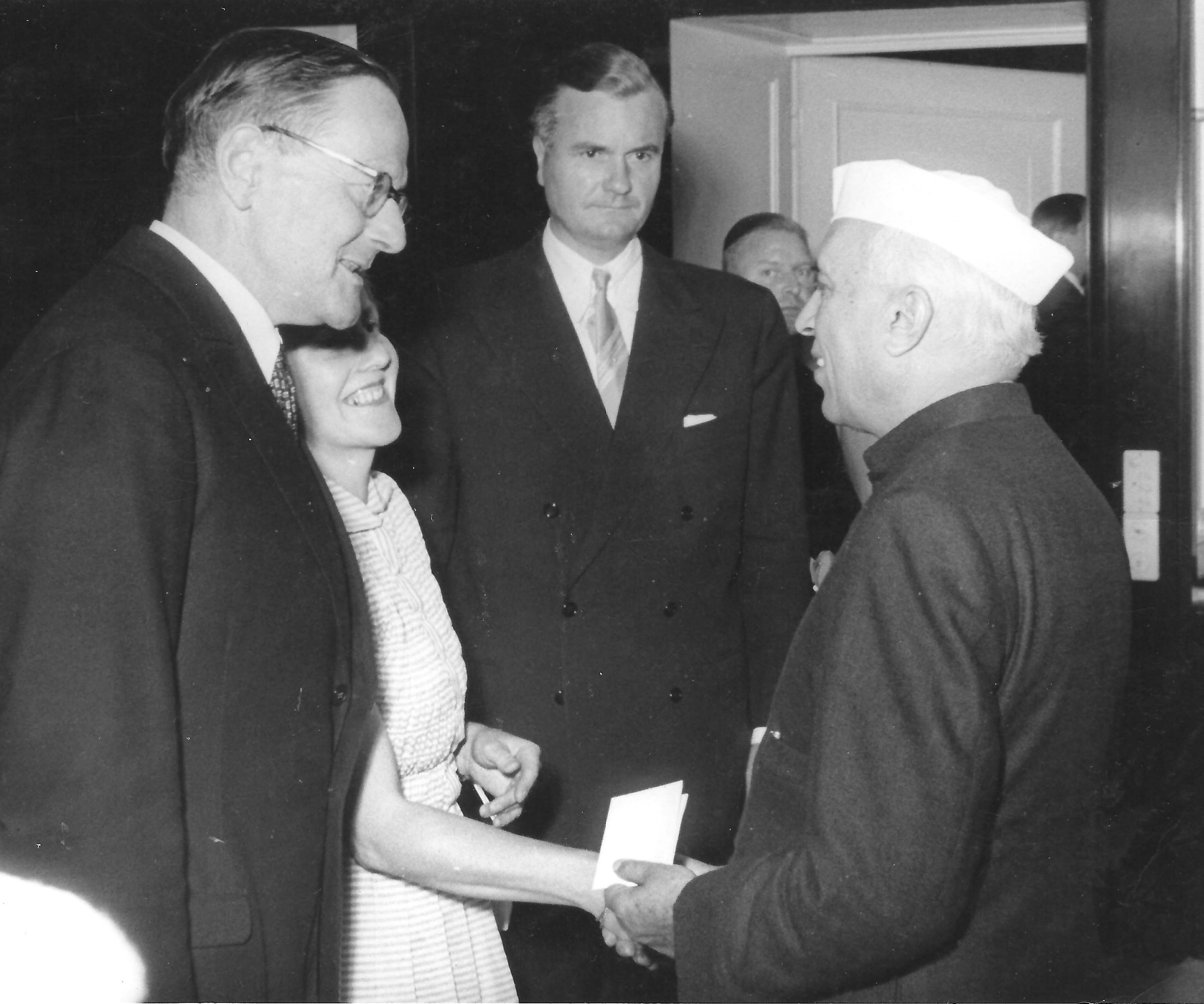 von links: Prof. Alsdorf, Lieselotte Hachmann, Dr. Preyer and the Prime Minister of India, Jawarhalal Nehru